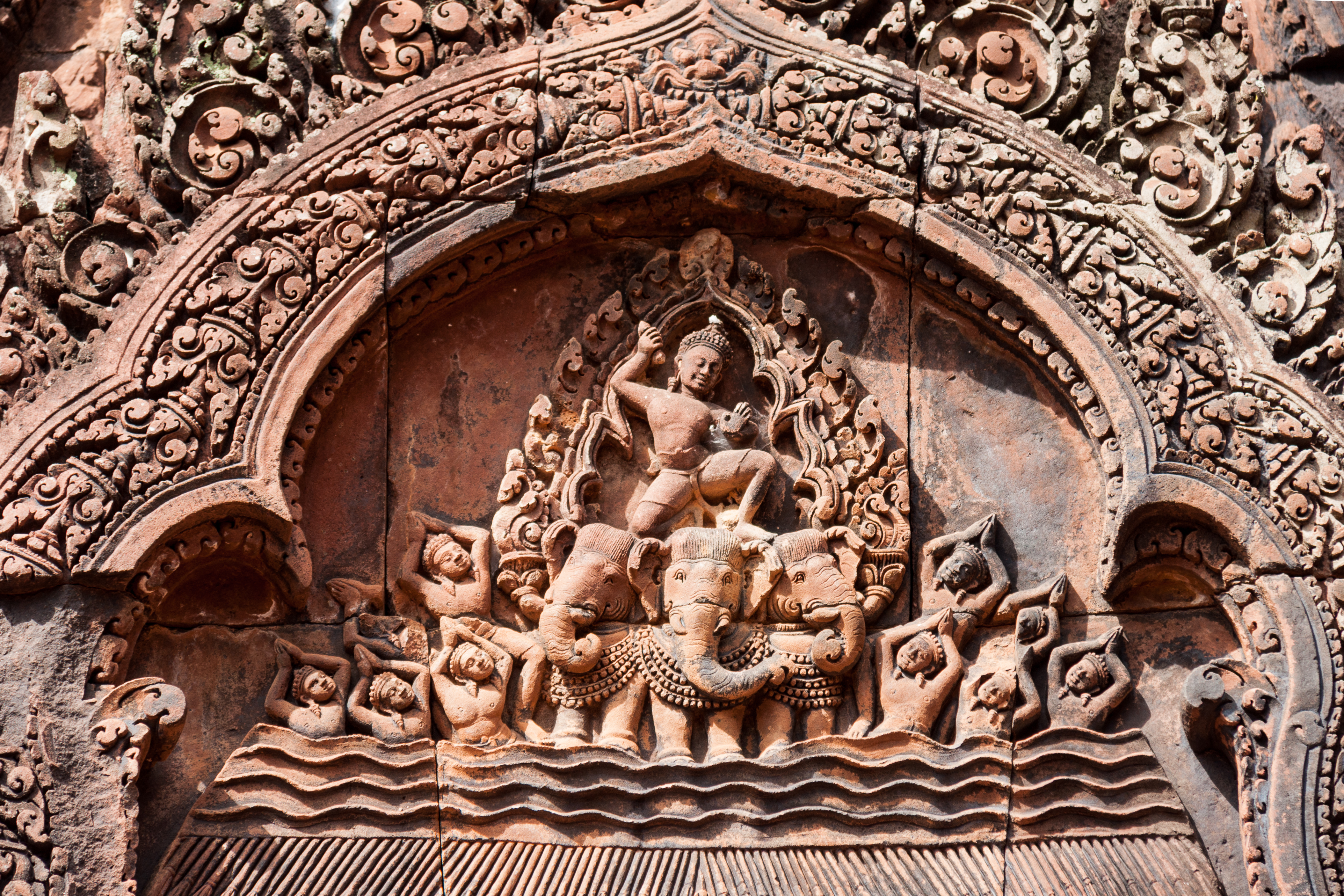 Banteay Srei, Siem Reap, Cambodia: Relief in the Angkor Thom Area